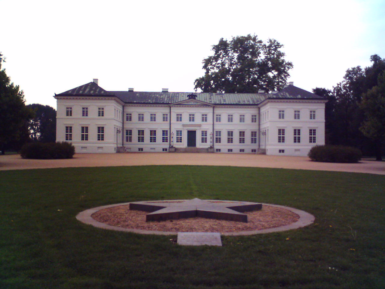 Castle Neuhardenberg, Brandenburg, Germany.